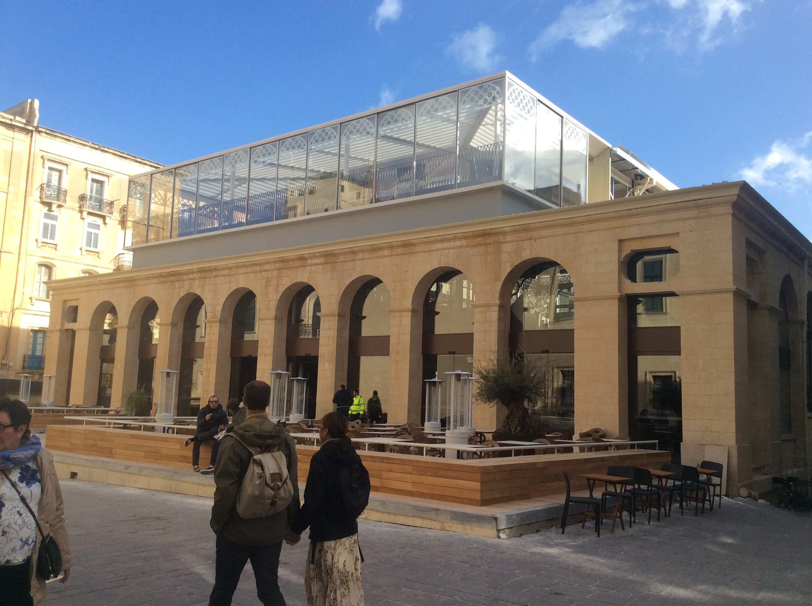 Is-Suq tal-Belt